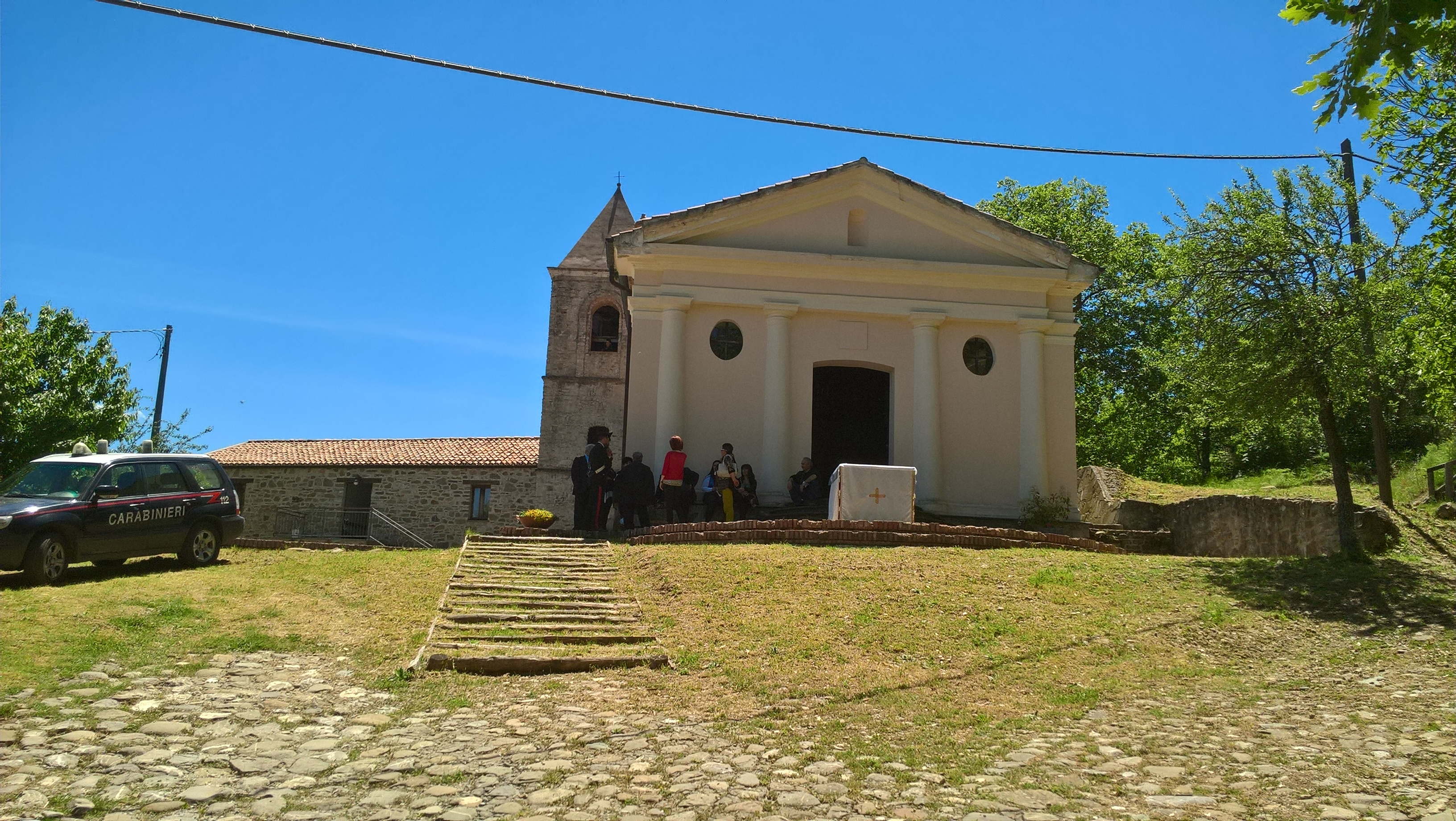 Sanctuary Madonna della Stella